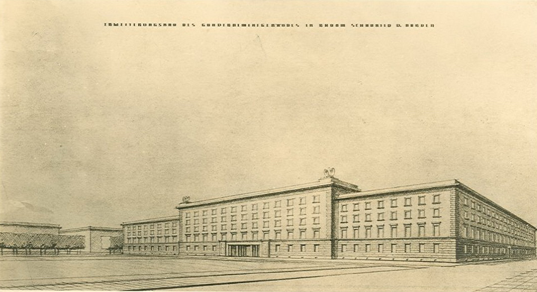 Plan of the Radom District office building in Radom, Poland (1940s)